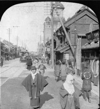 The Ginza district in Tokyo, Japan, photographed by American photographer William H. Rau, circa 1903.